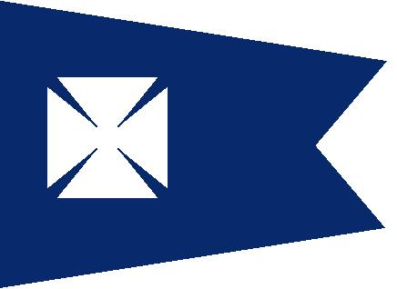 Yacht club flag